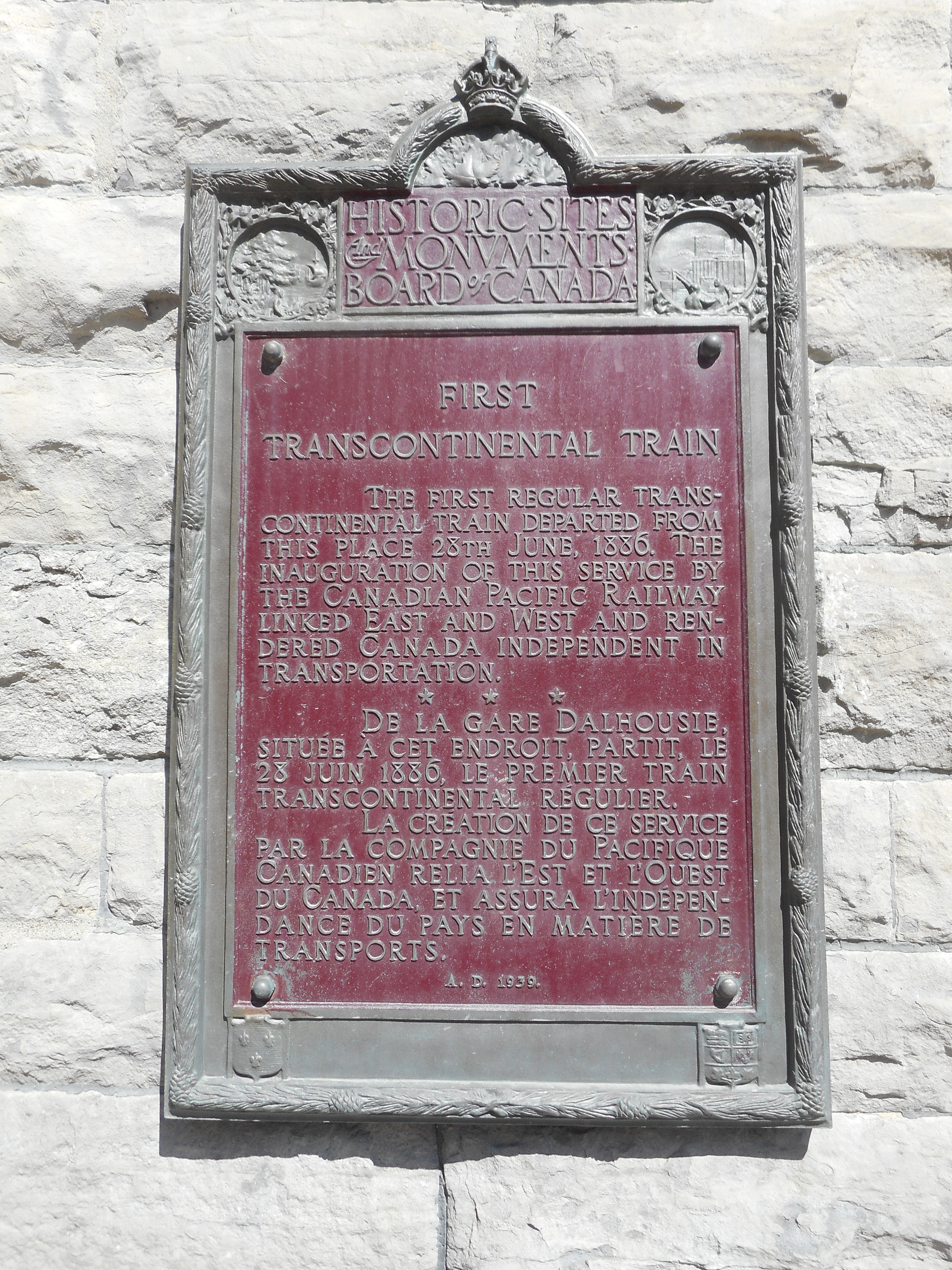 First Transcontinental Train The first regular transcontinental train departed from this place 28th June, 1886. The inauguration of this service by the Canadian Pacific Railway linked East and West and rendered Canada independant in transportation.